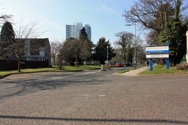 Saltshouse Road. This looks roughly west from 1209300.